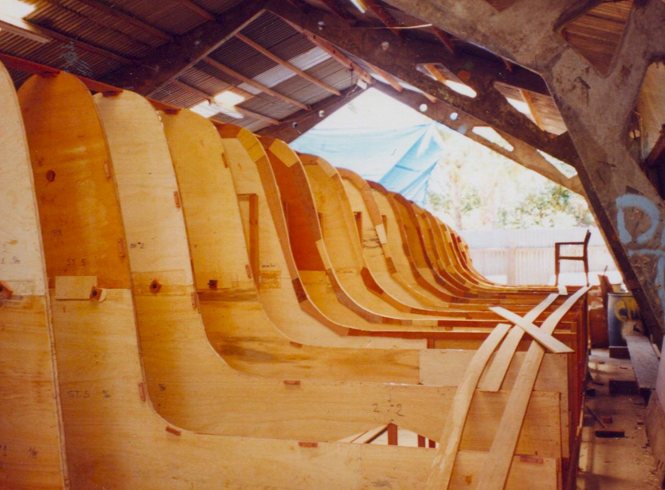 Brady 45' catamaran construction: pywood formers awaiting the application of strip planks